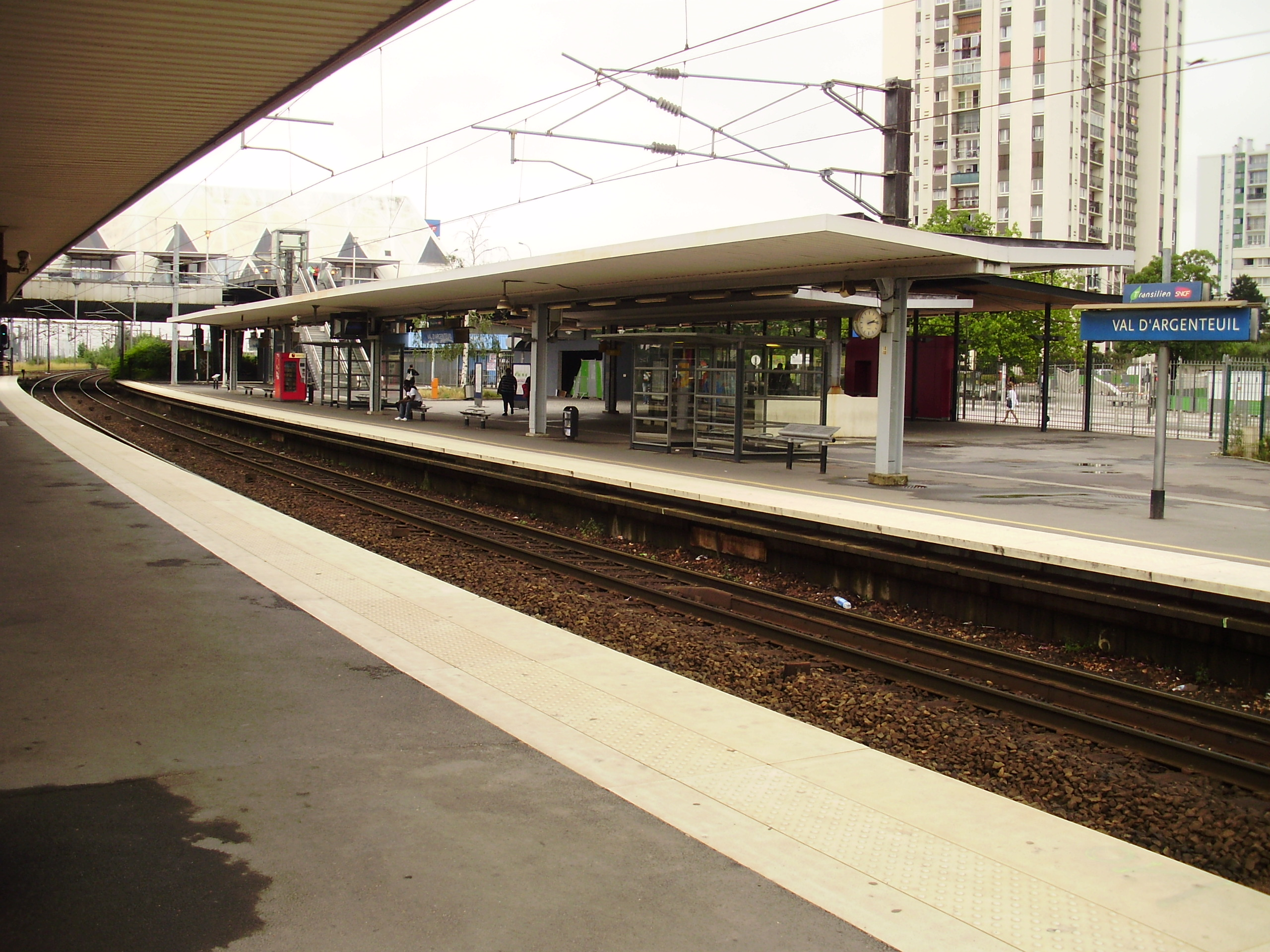 Val d'Argenteuil station, in Argenteuil, Val-d'Oise, France (west extremity of platform to Paris)